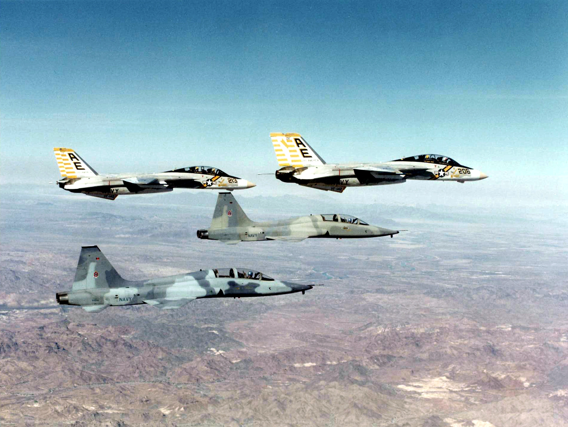 Two U.S. Navy Northrop T-38A Talons assigned to Fighter Squadron VF-43 "Challengers" are in flight with two Grumman F-14A Tomcats of VF-142 "Ghost Riders" near Marine Corps Air Station Yuma, Arizona (USA), in 1977. VF-142 was assigned to Carrier Air Wing 6 (CVW-6) aboard the aircraft carrier USS America (CV-66).